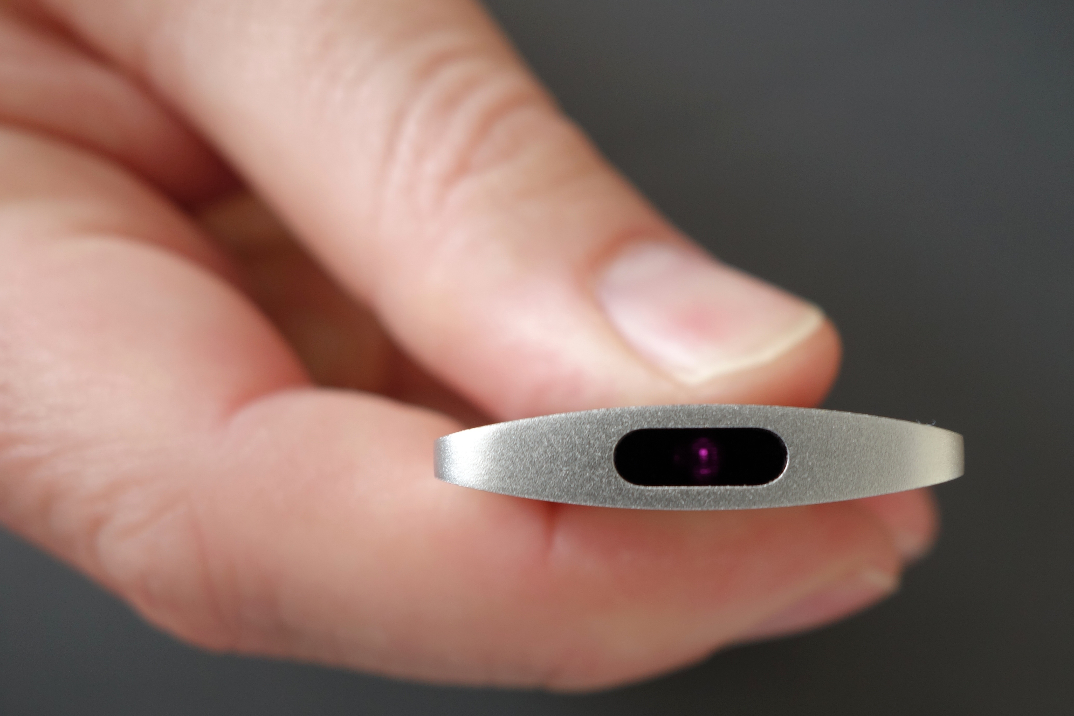 Front view of an Apple remote control (2nd generation) with lit infrared LED.